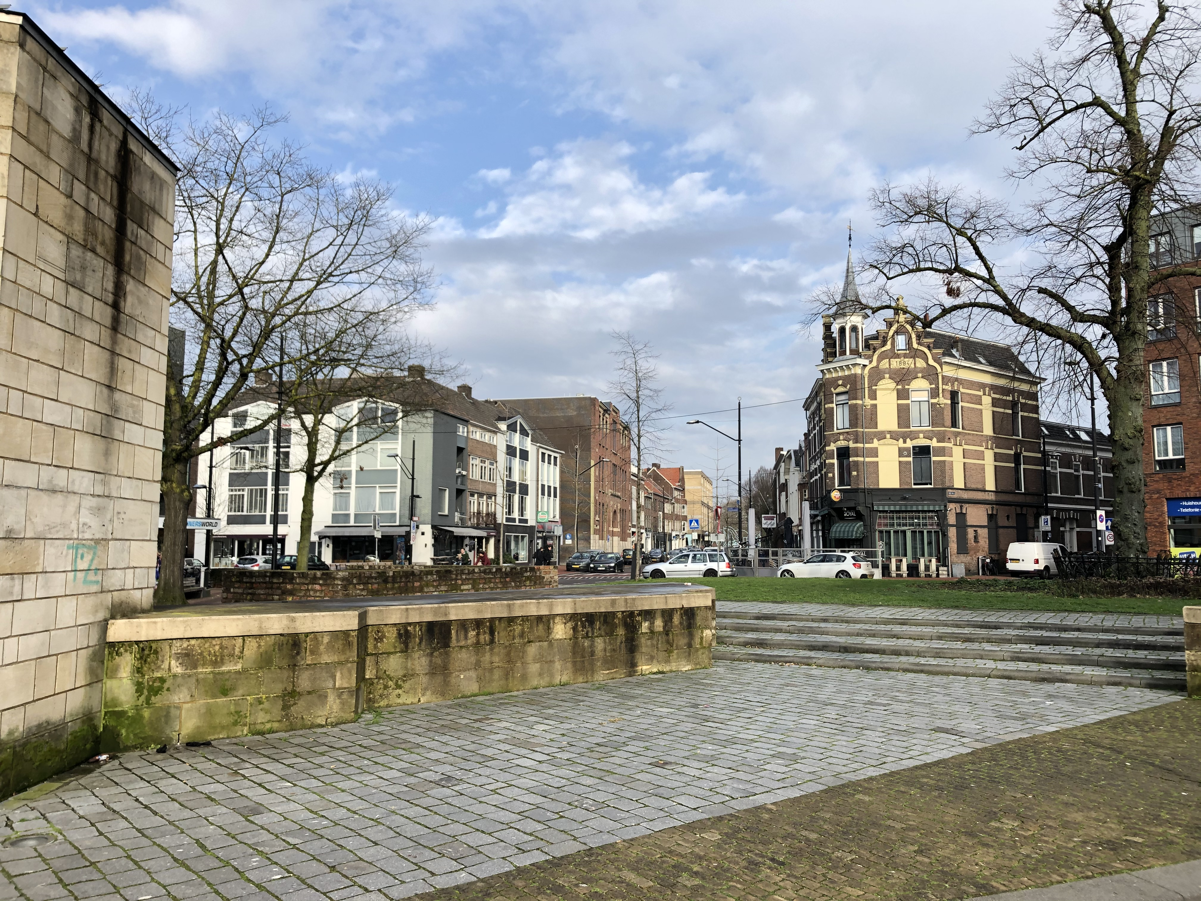 View of Hertogplein (Duke's square) in Nijmegen, the Netherlands. Photo taken in the direction of the Hertogstraat.